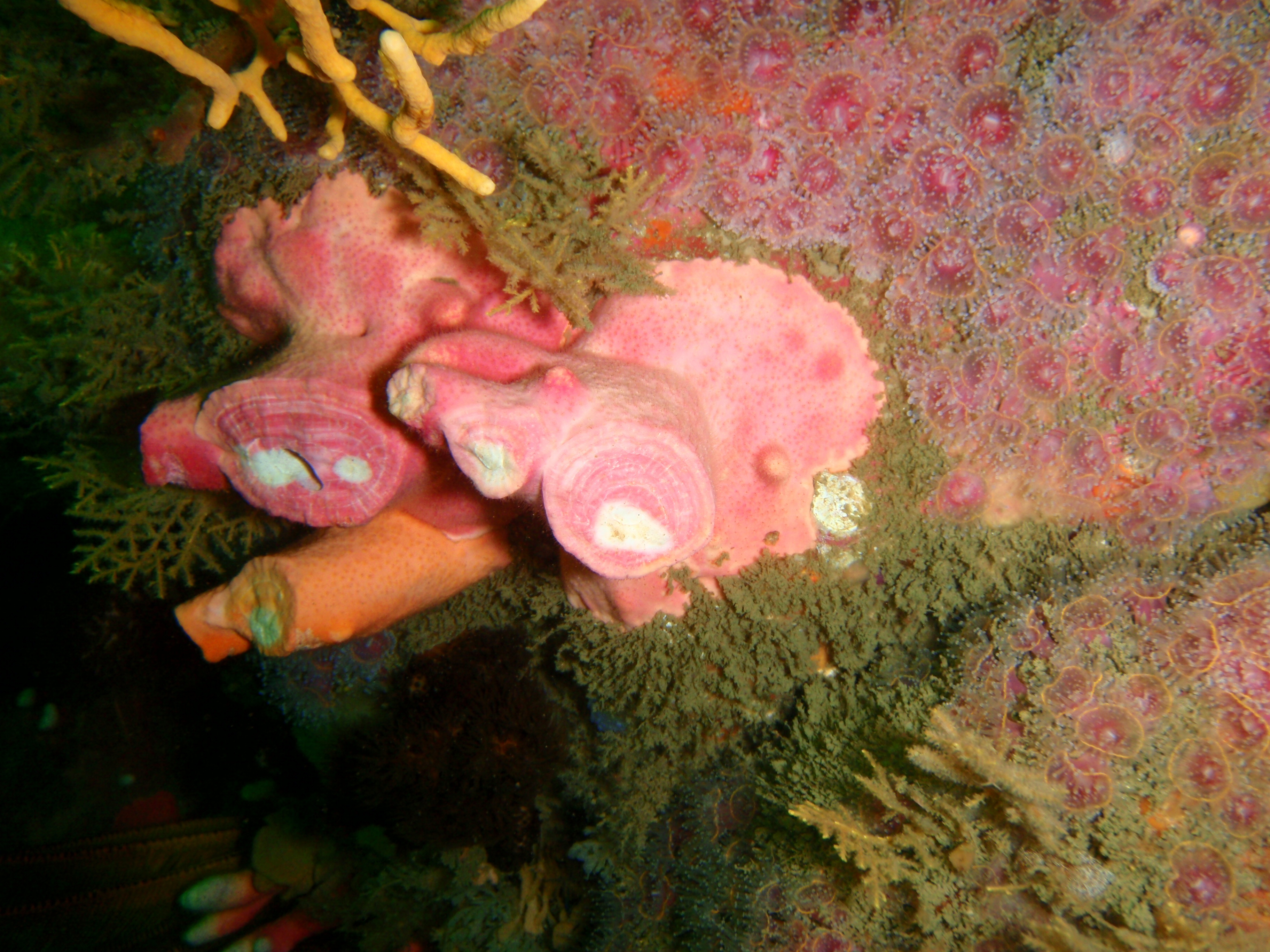 Noble coral Stylaster nobilis at Table Top reef at Hermanus, on the South African south coast.